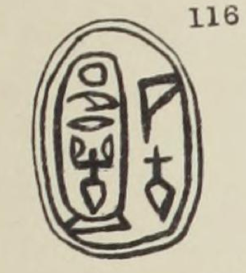 Scarab seal of Merneferre Ay as drawn by Flinders Petrie in 1906